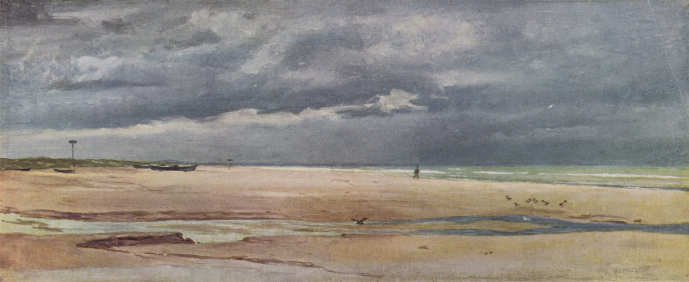 Painting by Martinus Rørbye from his third and last visit to northern Jutland in 1848